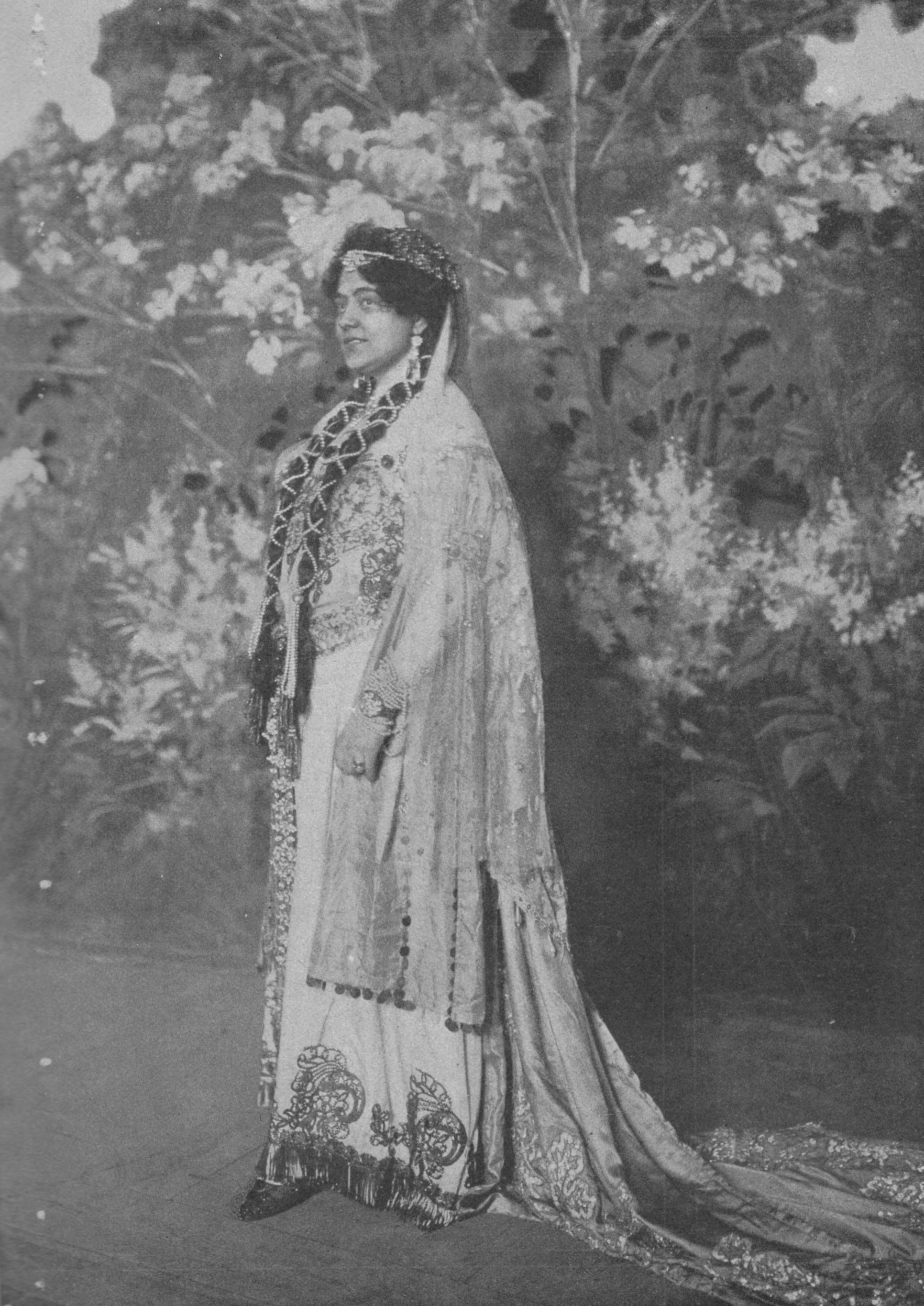 Josefine Vettori as a queen in Messagers Operette "Der Prinz-Gemahl"